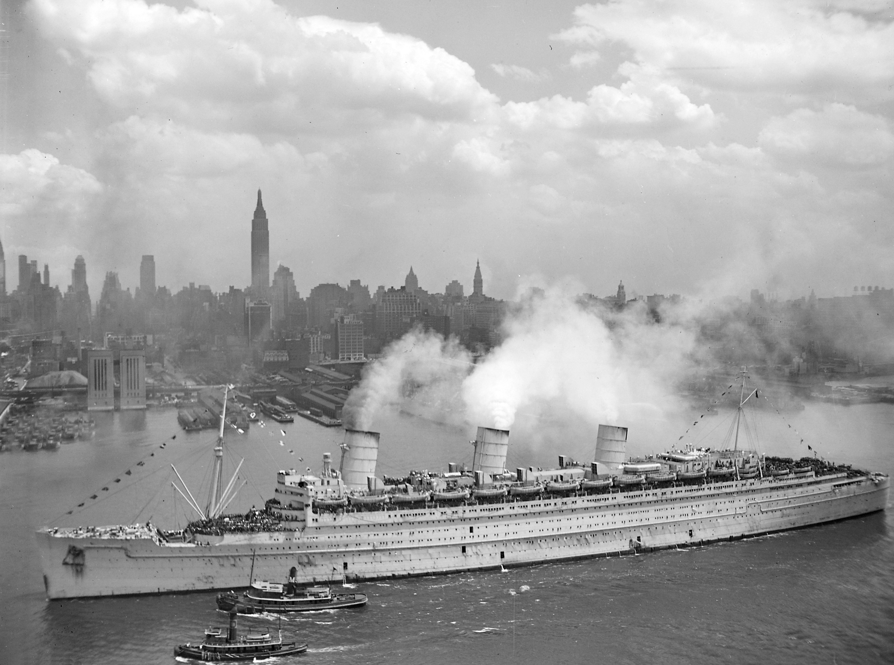 The British liner RMS Queen Mary arrives in New York harbour, 20 June 1945, with thousands of U.S. troops from Europe. The Queen Mary still wears her light grey war paint. Seen from near Hamilton Avenue, Weehawken.